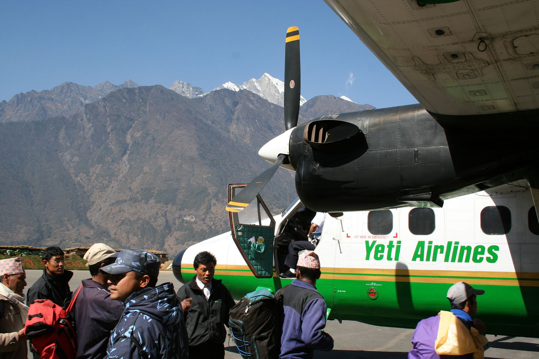 Yeti Airlines de Havilland Canada DHC-6 Twin Otter on Lukla Airport